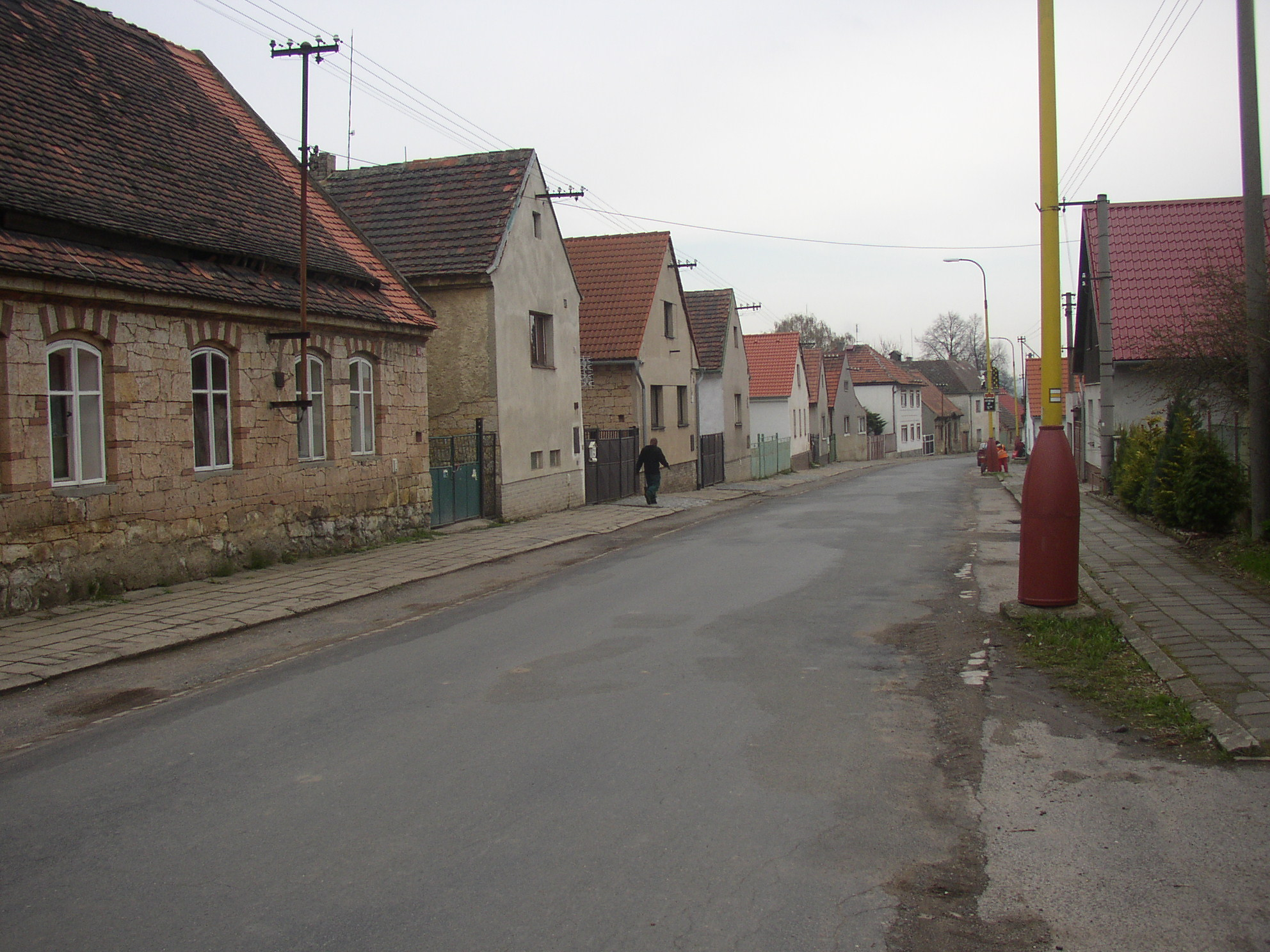 Kounov, Rakovník District, Central Bohemian Region, Czech Republic. Main street.